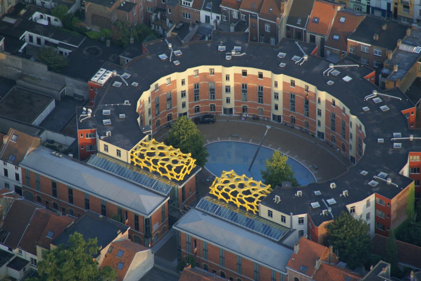 Helicopterview Warsubec